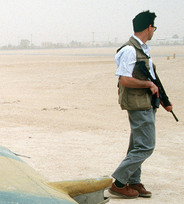 A Delta Force soldier in civilian clothing protects General Norman Schwarzkopf druring a visiot of Operation Desert Storm